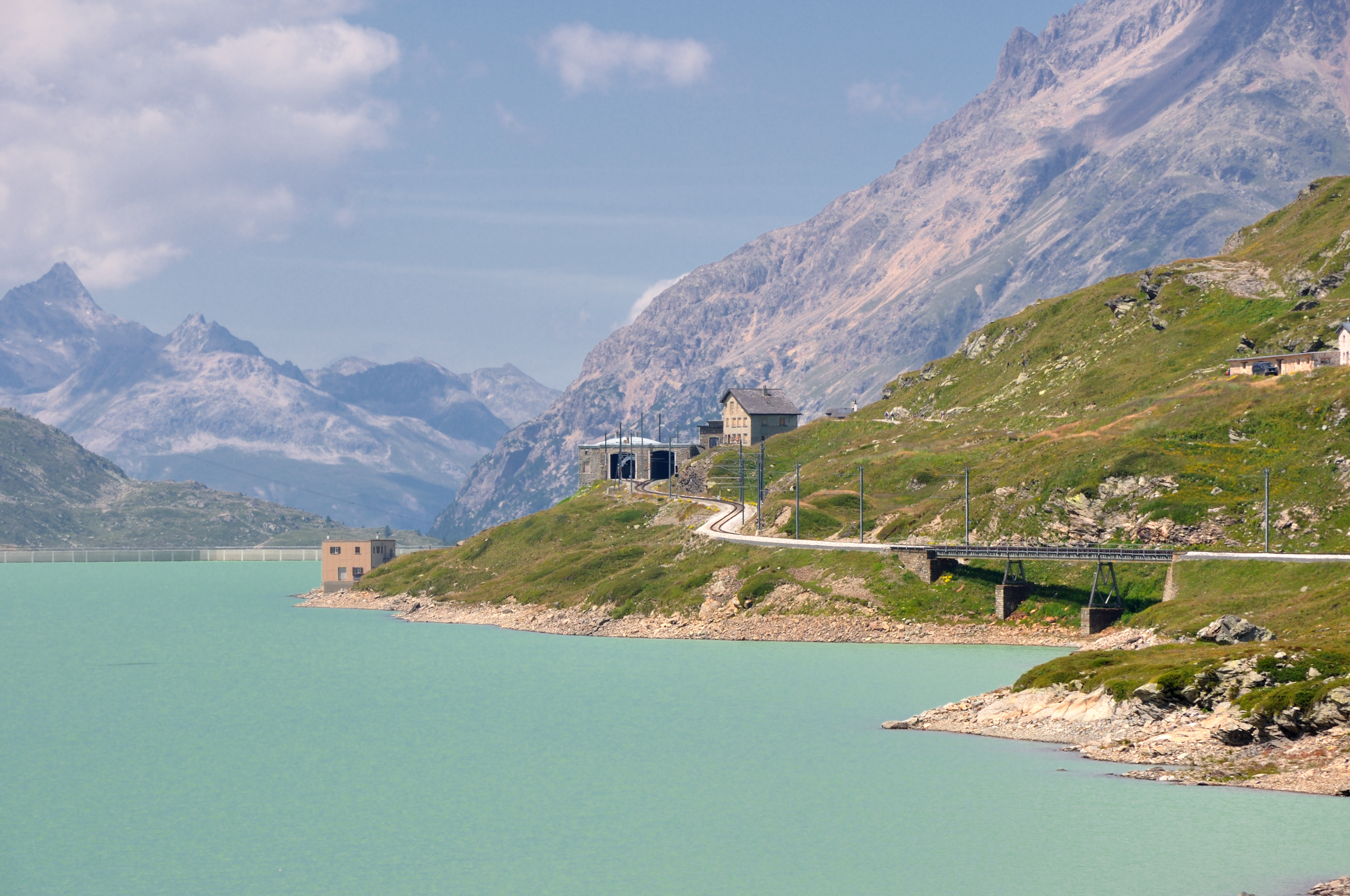 Switzerland, Graubünden, Ospizio Bernina station of the Bernina line of the Rhaetian railway